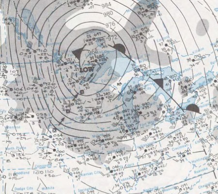 Surface weather analysis of the Great Storm on 11 January 1975.